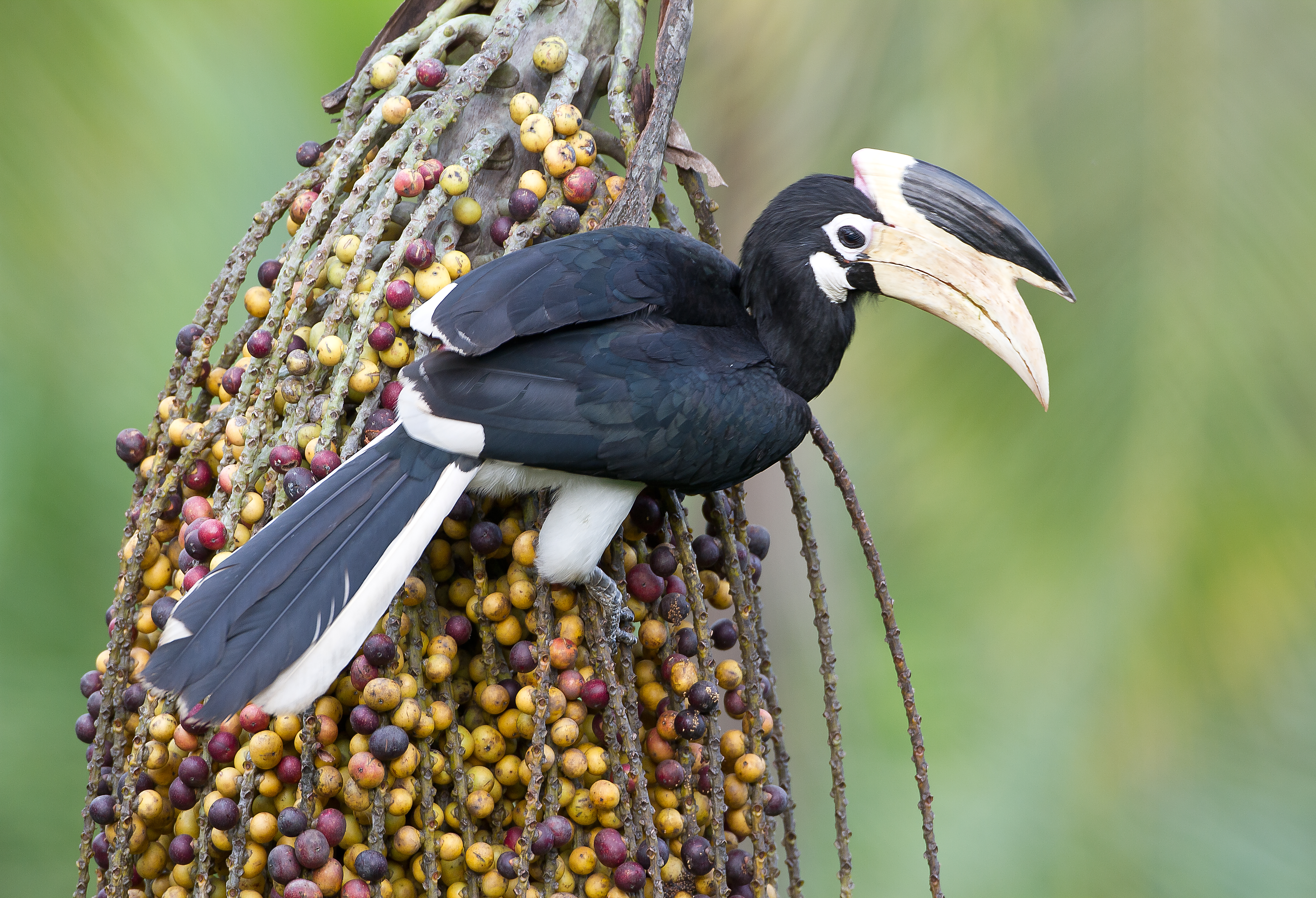 These birds feed on the colourful fruit of the Fishtail palm. They are regular visitors when the fruit are in season, and usually visit as a family.